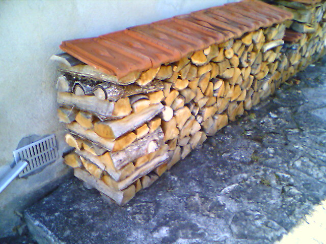 Firewood stacked with supporting ends, in eastern France, covered by terracotta tiles.